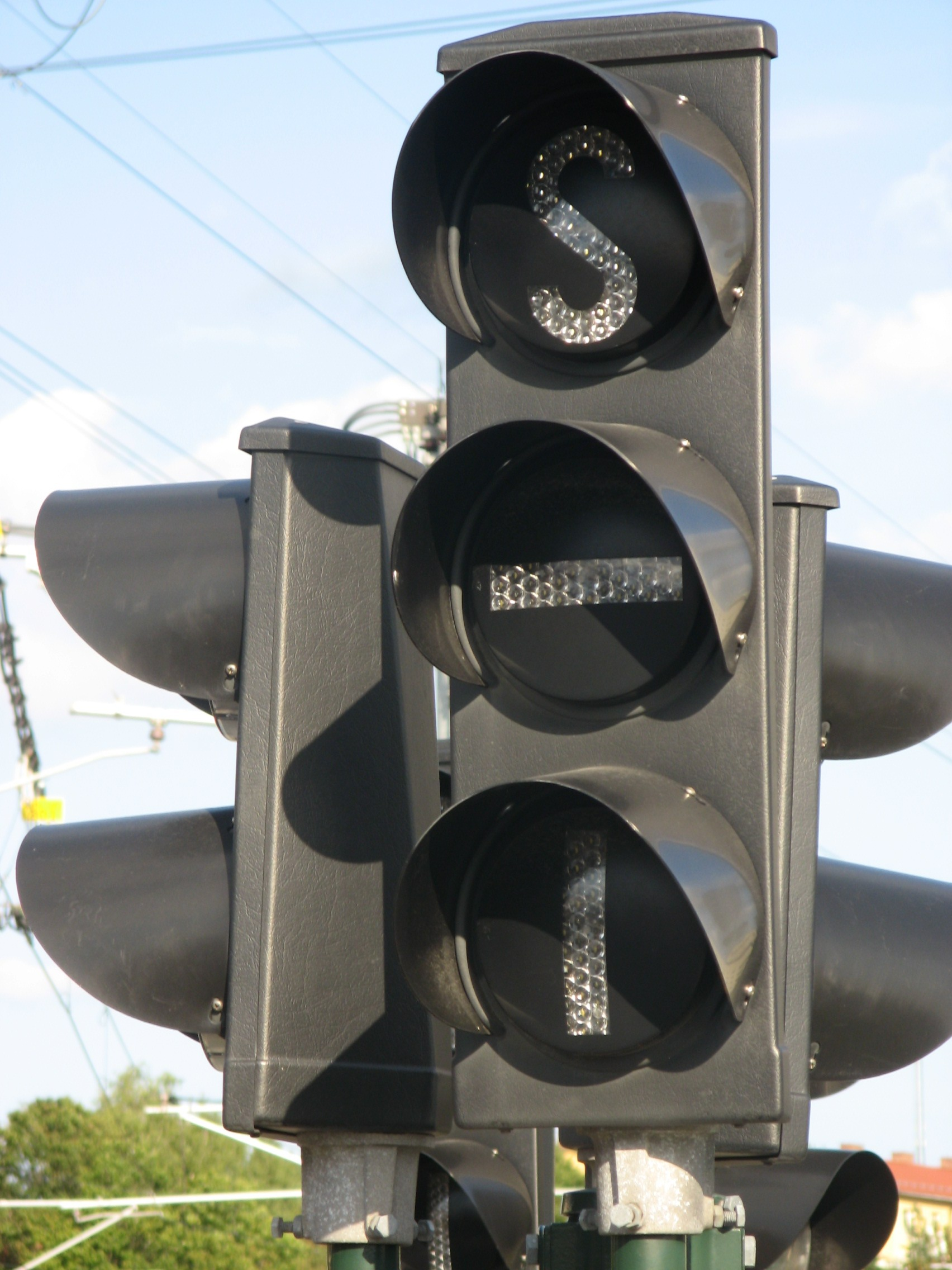 Tramway signal in Årsta, Stockholm, Sweden